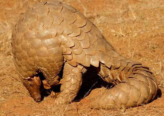 Pangolin found in Gir Forest, Gujarat, India